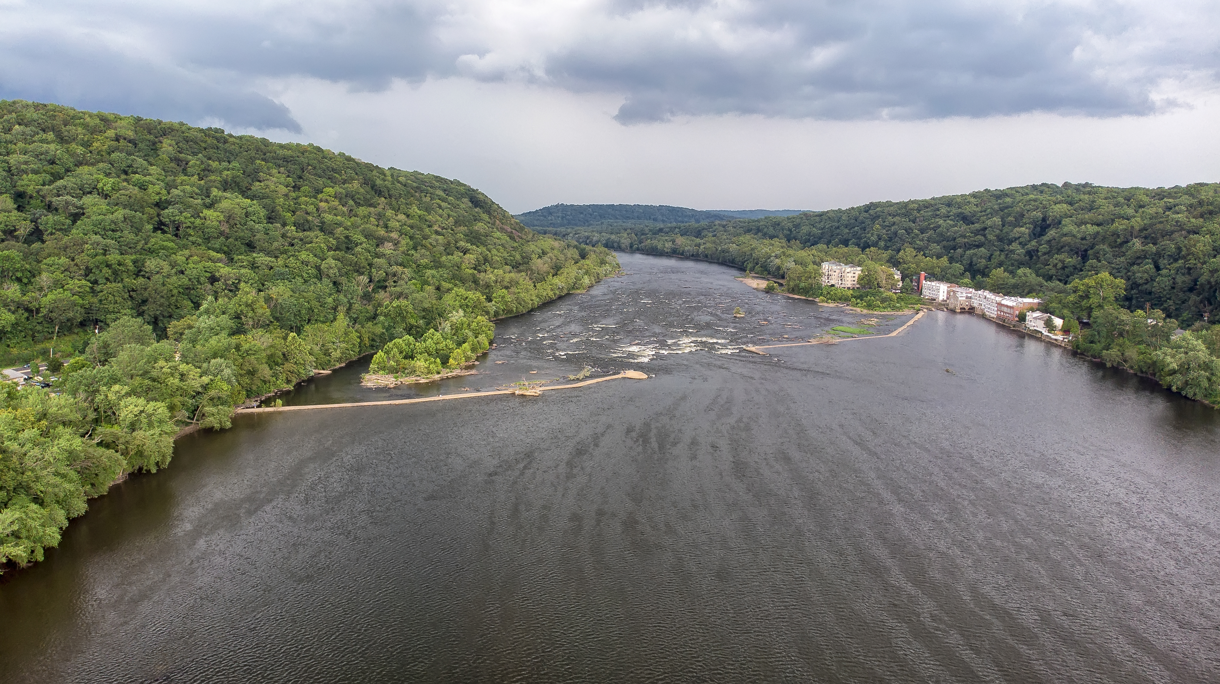 Lambertville, New Jersey on left and New Hope, Pennsylvania on right.